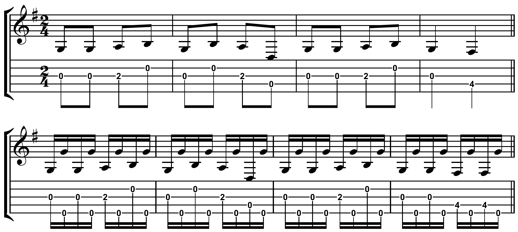 Melody to "Yankee Doodle" without and with drone notes as played on the banjo. Created by Hyacinth (talk) 21:27, 11 November 2010 using Sibelius 5.